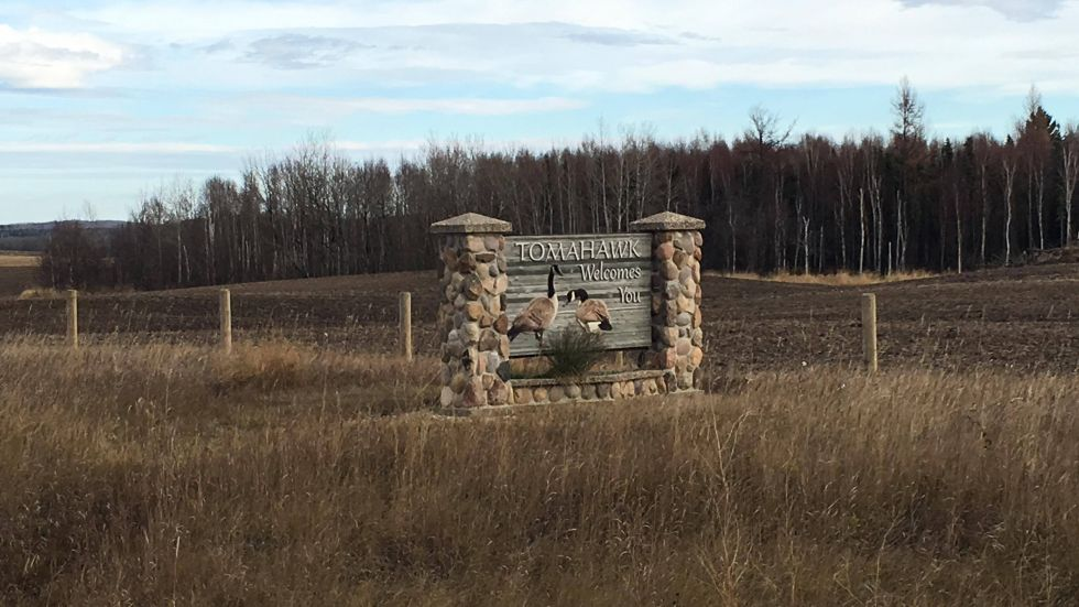 Welcome to Tomahawk